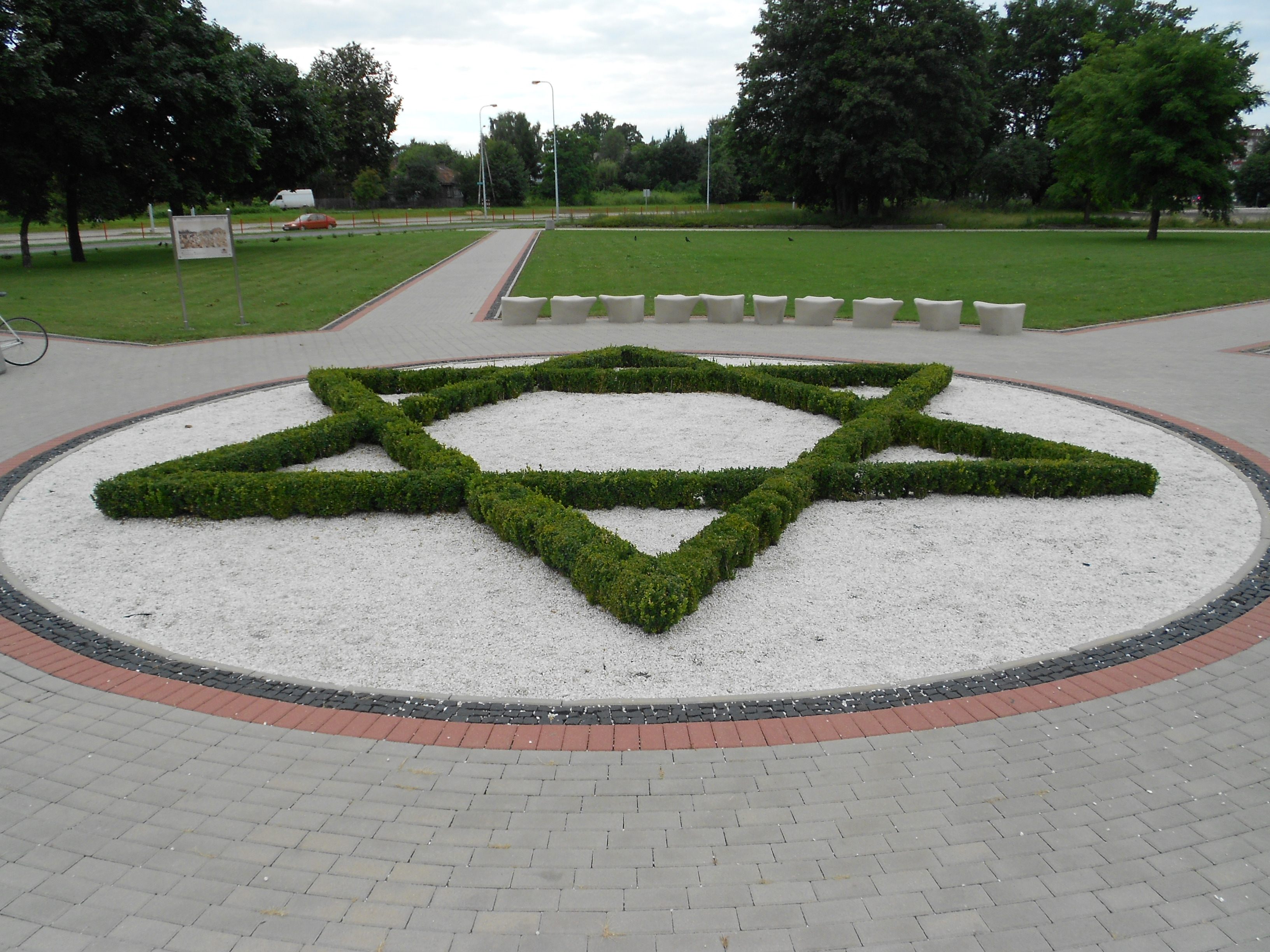 Square at former Jewish cemetery near Bema street, Białystok, Poland